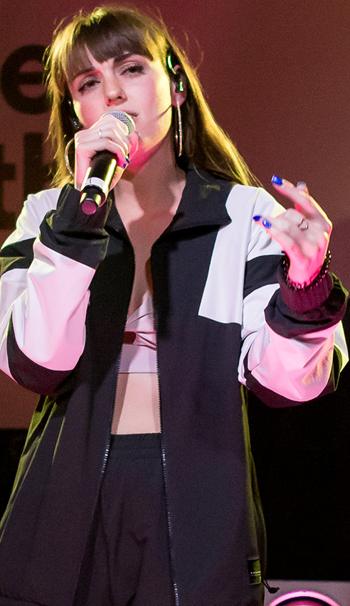 Nina Nesbitt, Charlotte Lawrence, and Sasha Sloan performing live at the Spotify Sessions "Louder Together" event at Resident DTLA in Los Angeles, California, on Saturday, March 24, 2018.